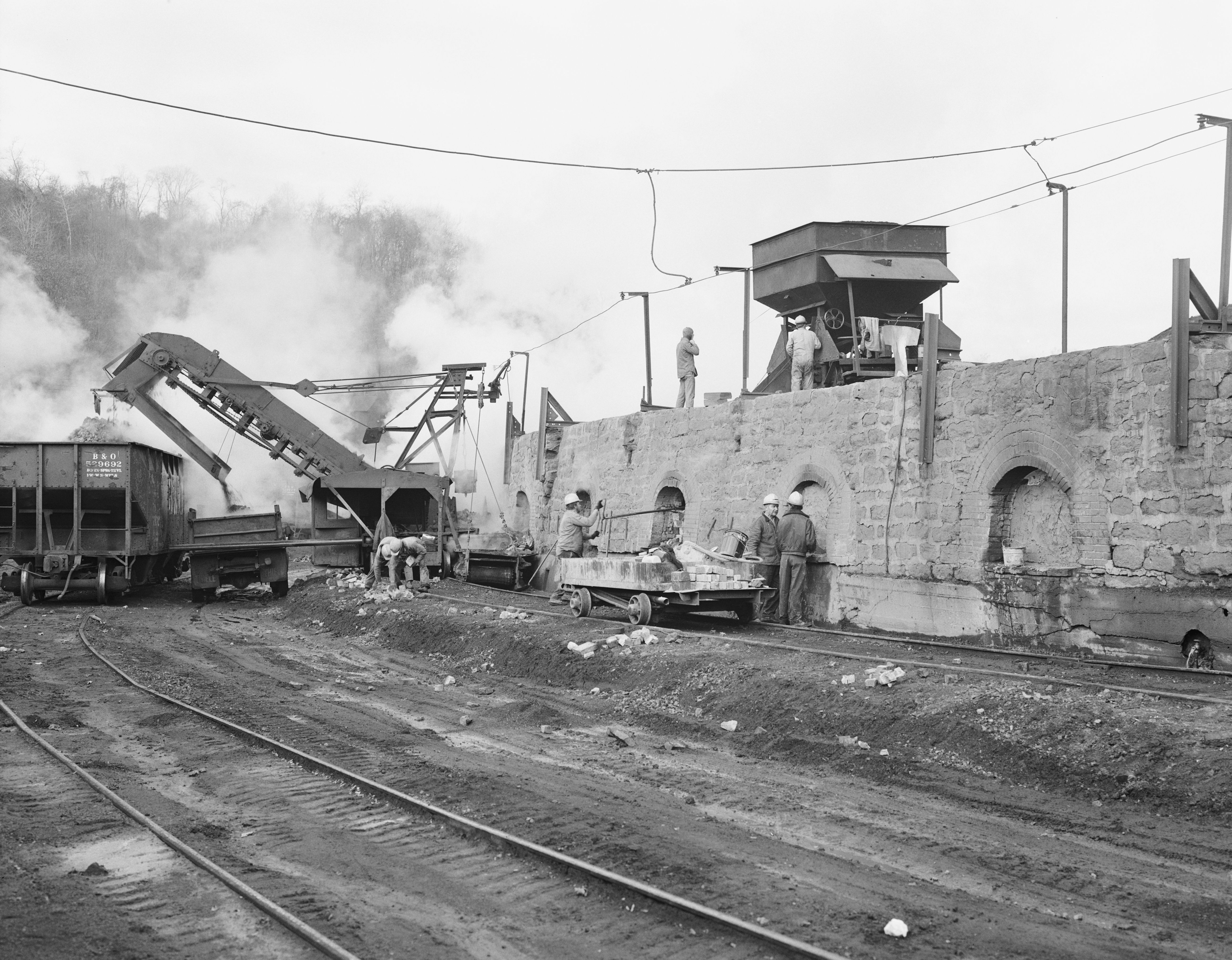 Elkins Coal & Coke Company, Bretz vicinity (Preston County, West Virgina) (cropped)